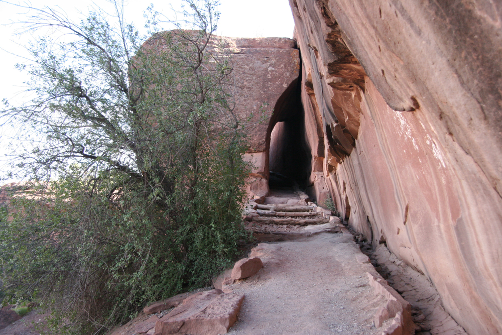 Trail to the White House Ruin. A small tunnel near trailhead.